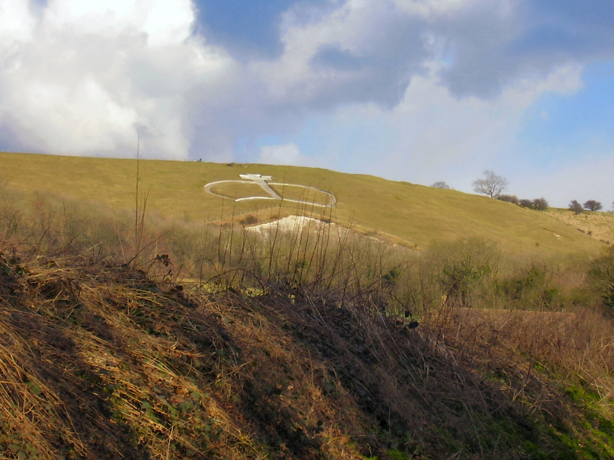 The Wye Crown was created by students at Wye College in Kent, to celebrate the coronation of Edward VII in 1902. (C Hoyle??)